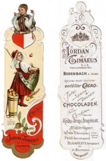 old bookmark by the chocolate producer Jordan & Timaeus.